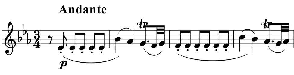 Joseph Haydn, Symphony No. 83, second movement, bar 1-4, 1. violin